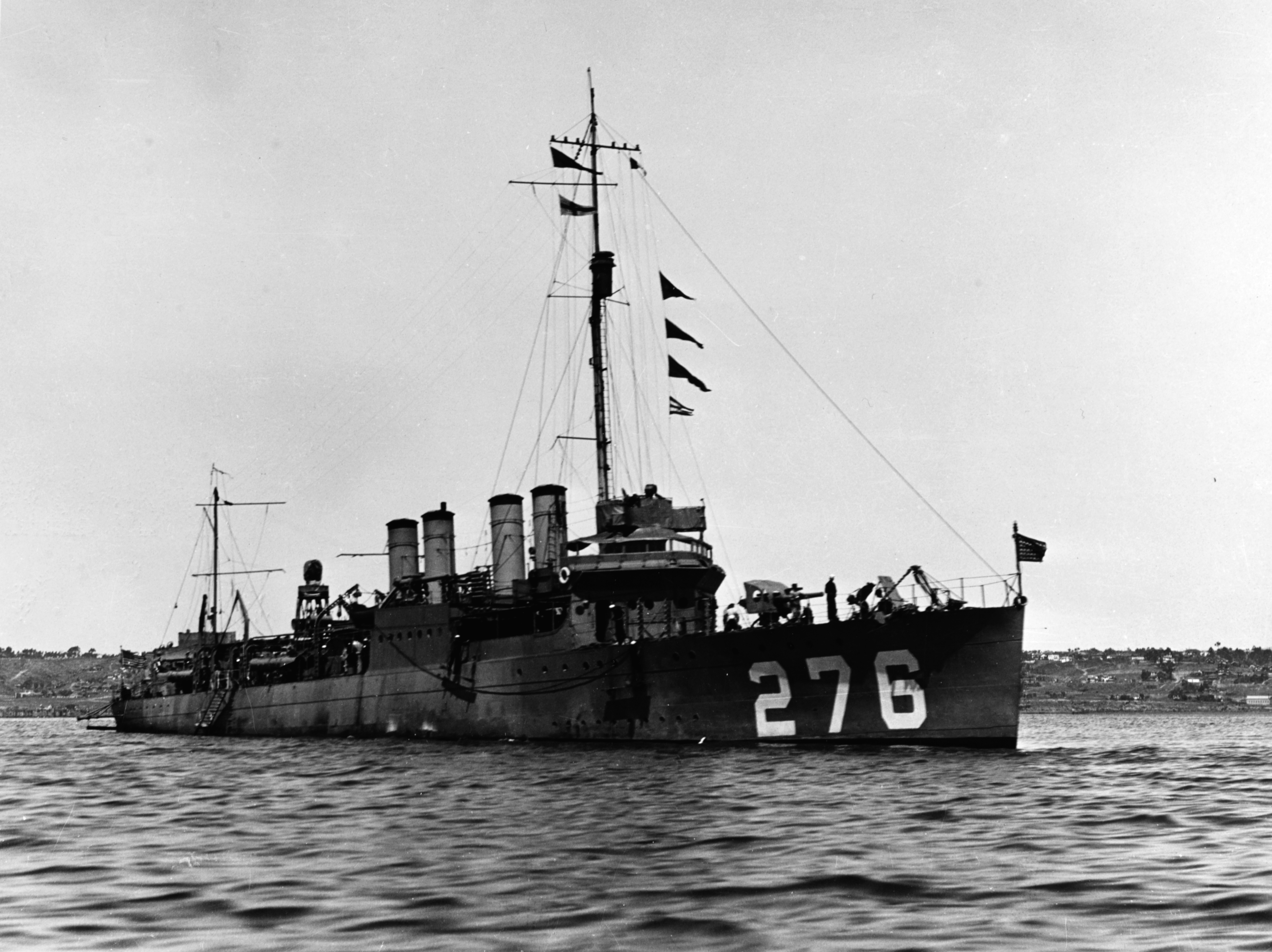 The U.S. Navy destroyer USS McCawley (DD-276) at anchor during the early 1920s.